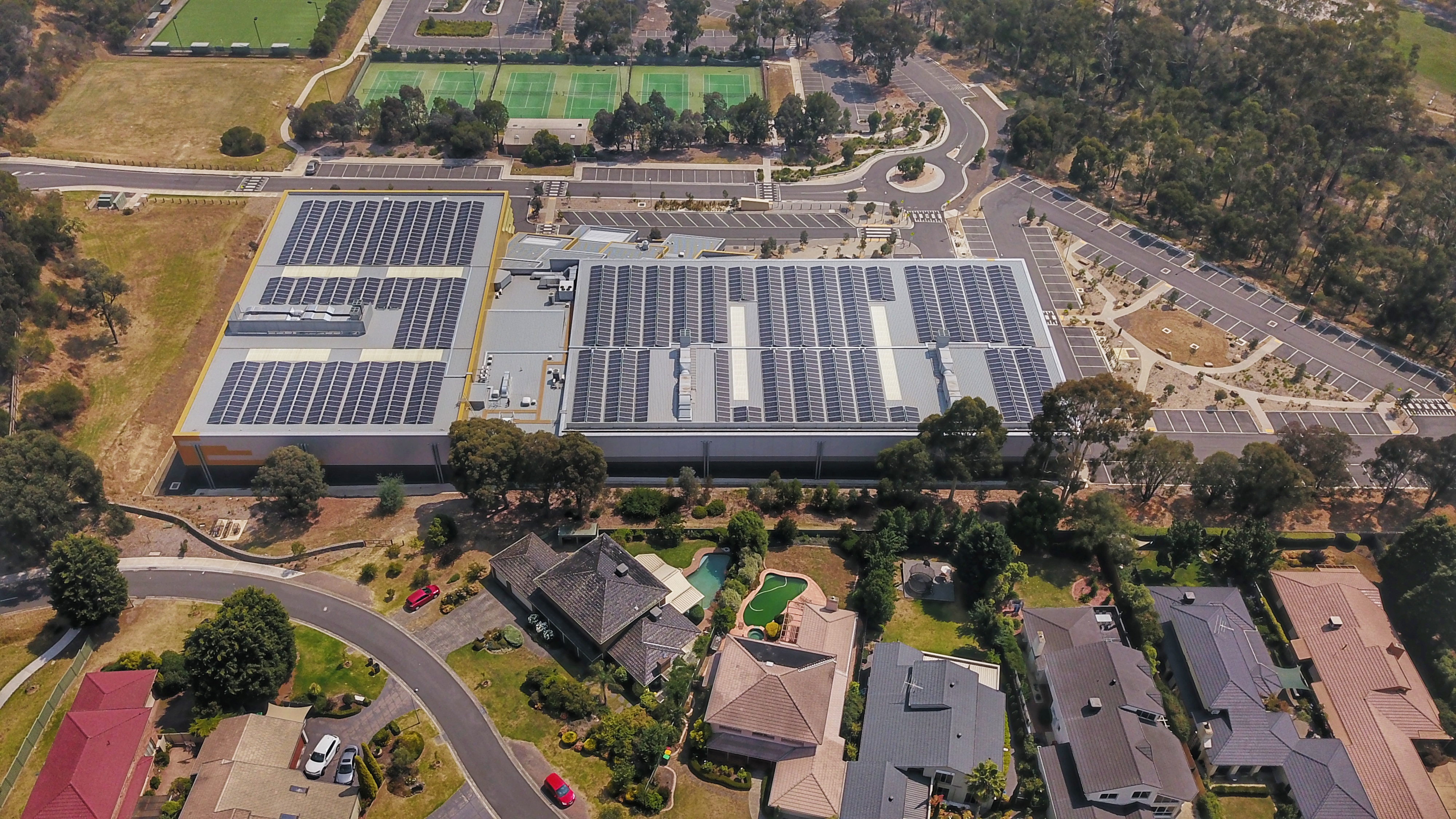 Mullum Mullim Stadium from the air